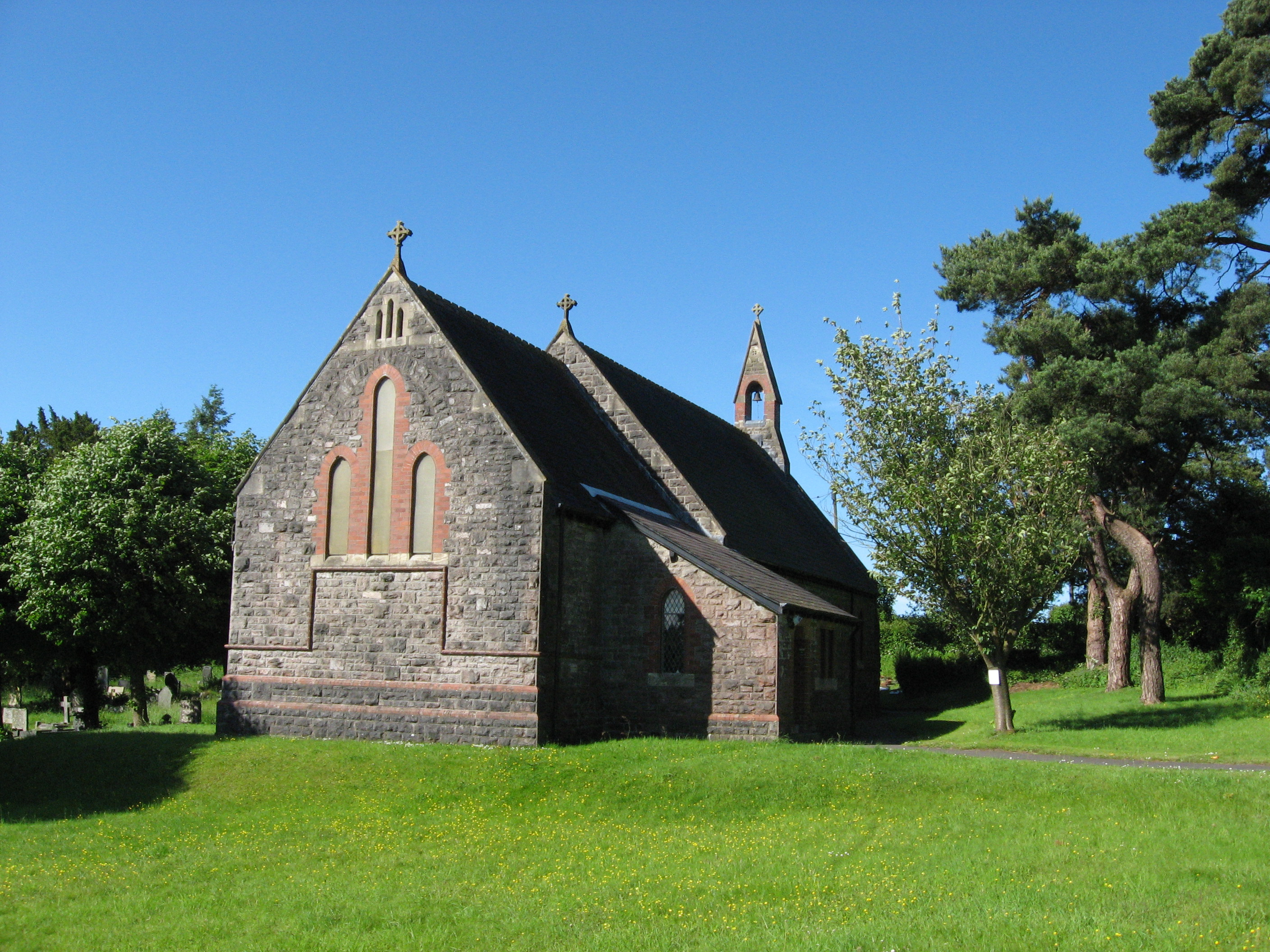 Church in Groes-Faen. St David's Church.